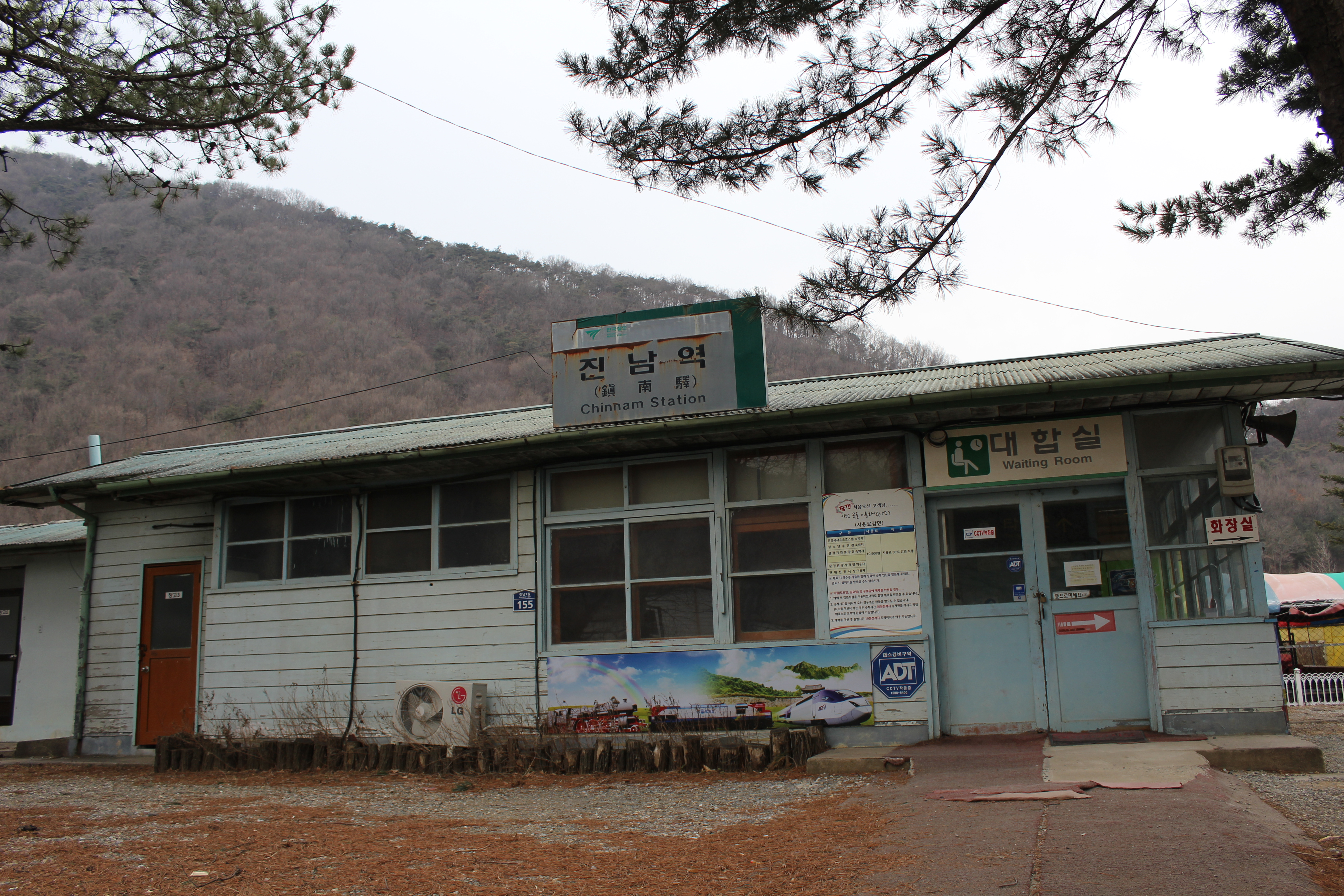 Mungyeong Line Jinnam Station